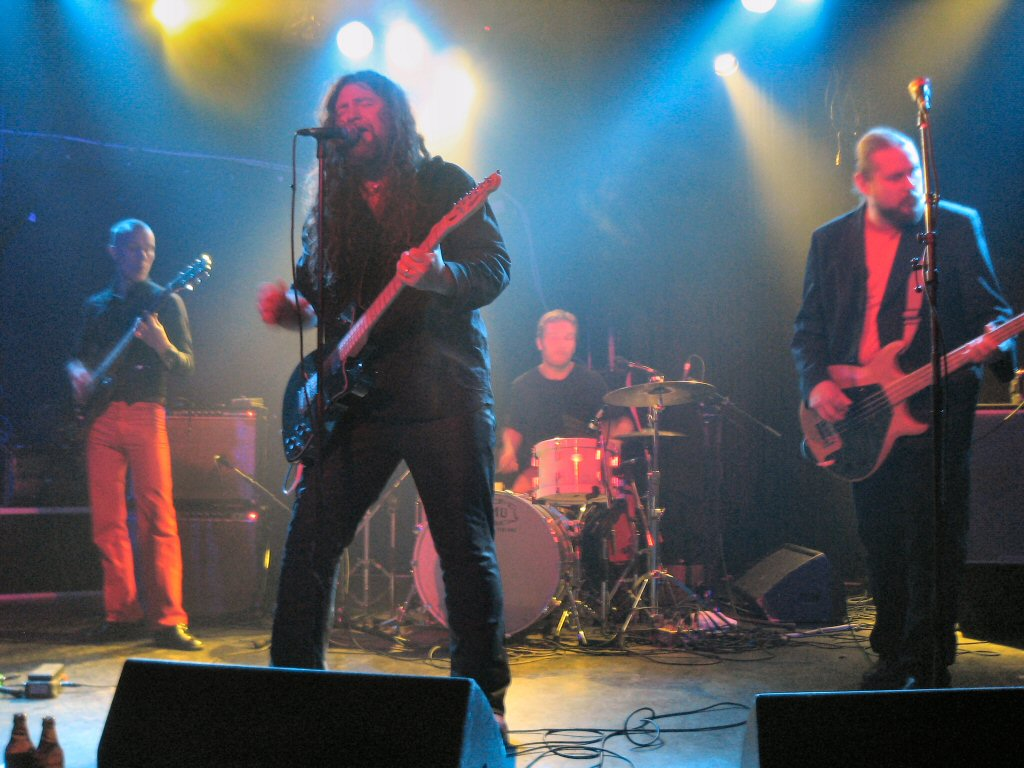 Finnish band Zook performing live at Helsinki (club Virgin Oil) 12th of June 2006